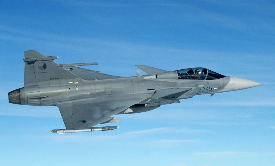 Czech Air Force 9245 Gripen